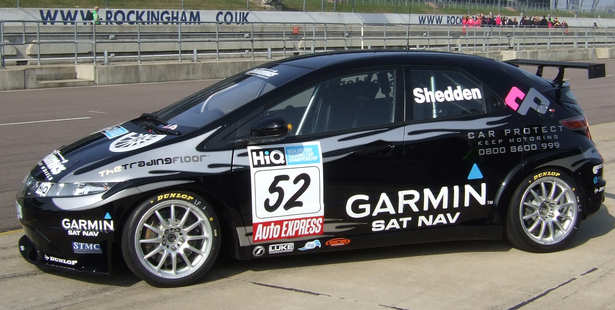 From BTCC Media Day held at Rockingham Speedway. Image of Gordon Shedden's 2009 Honda Civic. Now Halfords have pulled out their sponsorship of the team the car has changed colour from Orange to Black.